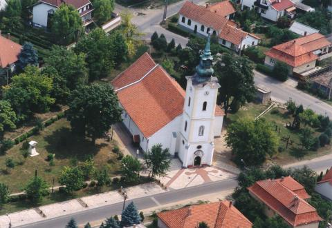 Jászfényszaru, Hungary, aerialphotography. Mindenszentek római katolikus templom